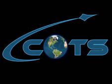 Stylized text "COTS", used to represent the Commercial Orbital Transportation Services program managed by the Commercial Crew and Cargo Program Office at NASA.